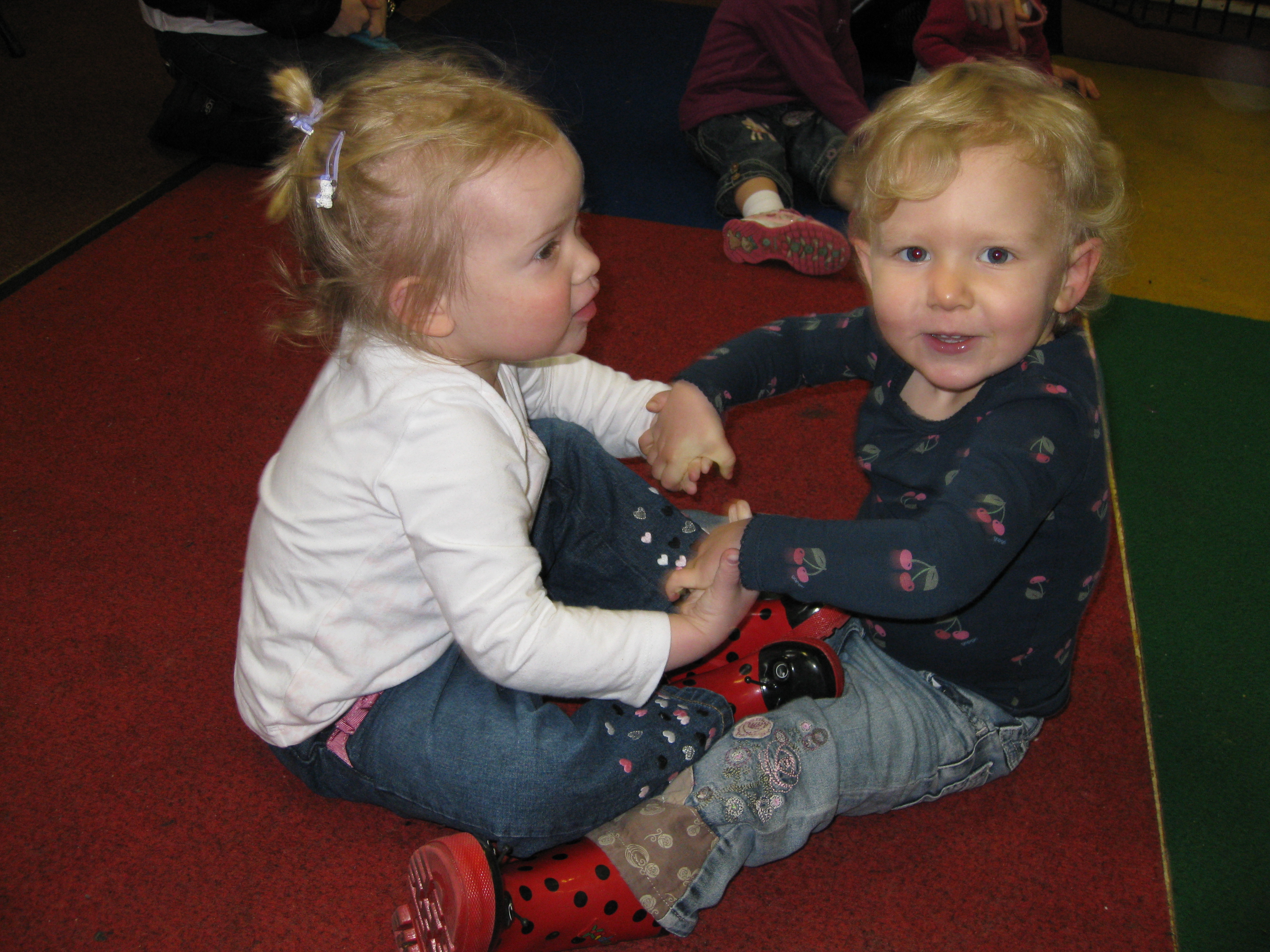 Sofia and Lila play row your boat